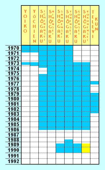 Table about the serialization of the manga Doraemon. Translation and substantials alterations of [File:Doraemon, serial publication.png], image released under public domain.